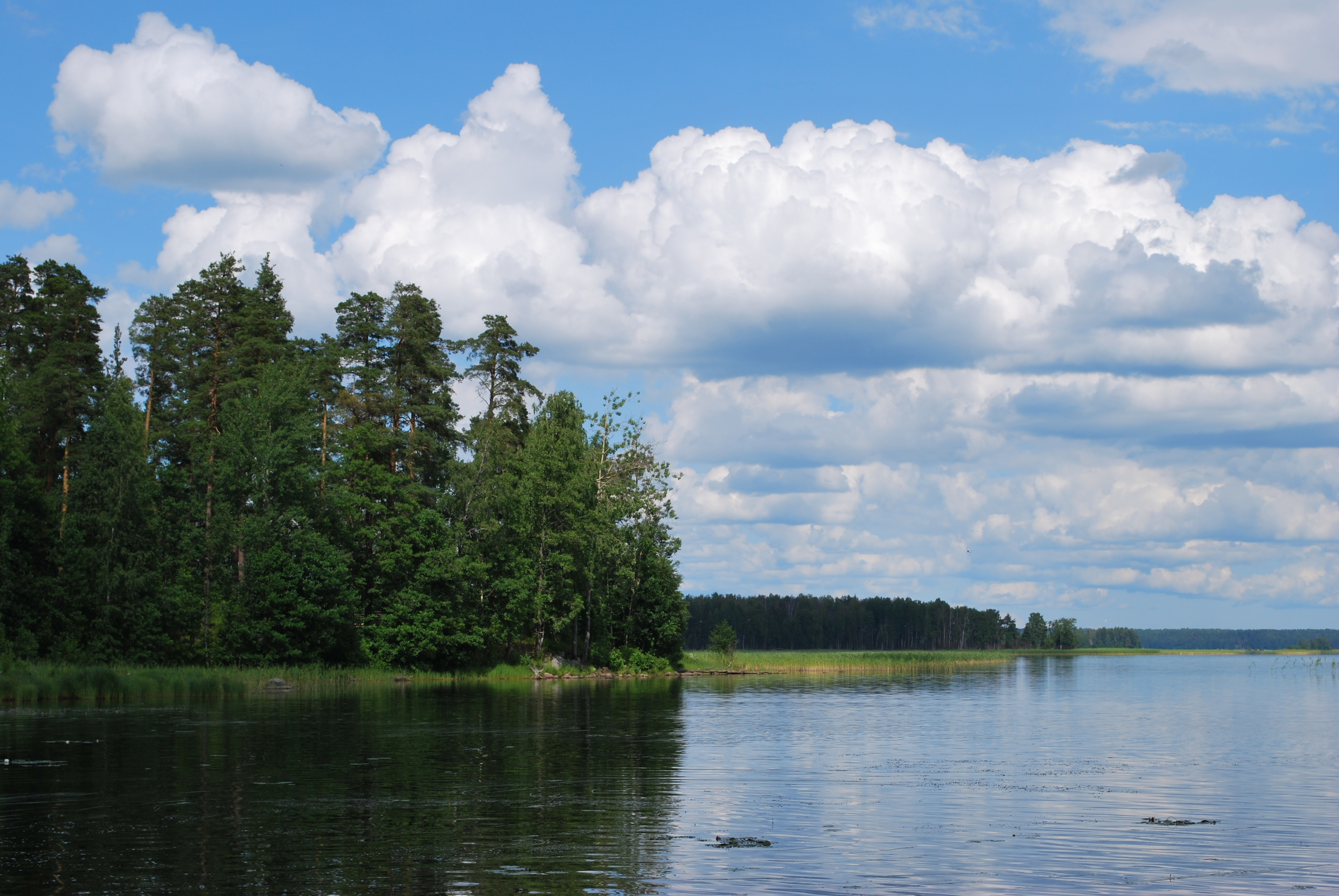 Noth-West bank of the Lake Glubokoe (Leningrad Region)